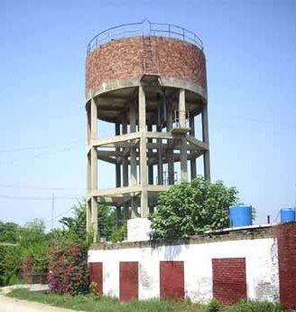 this the picture of thandkoi at main road